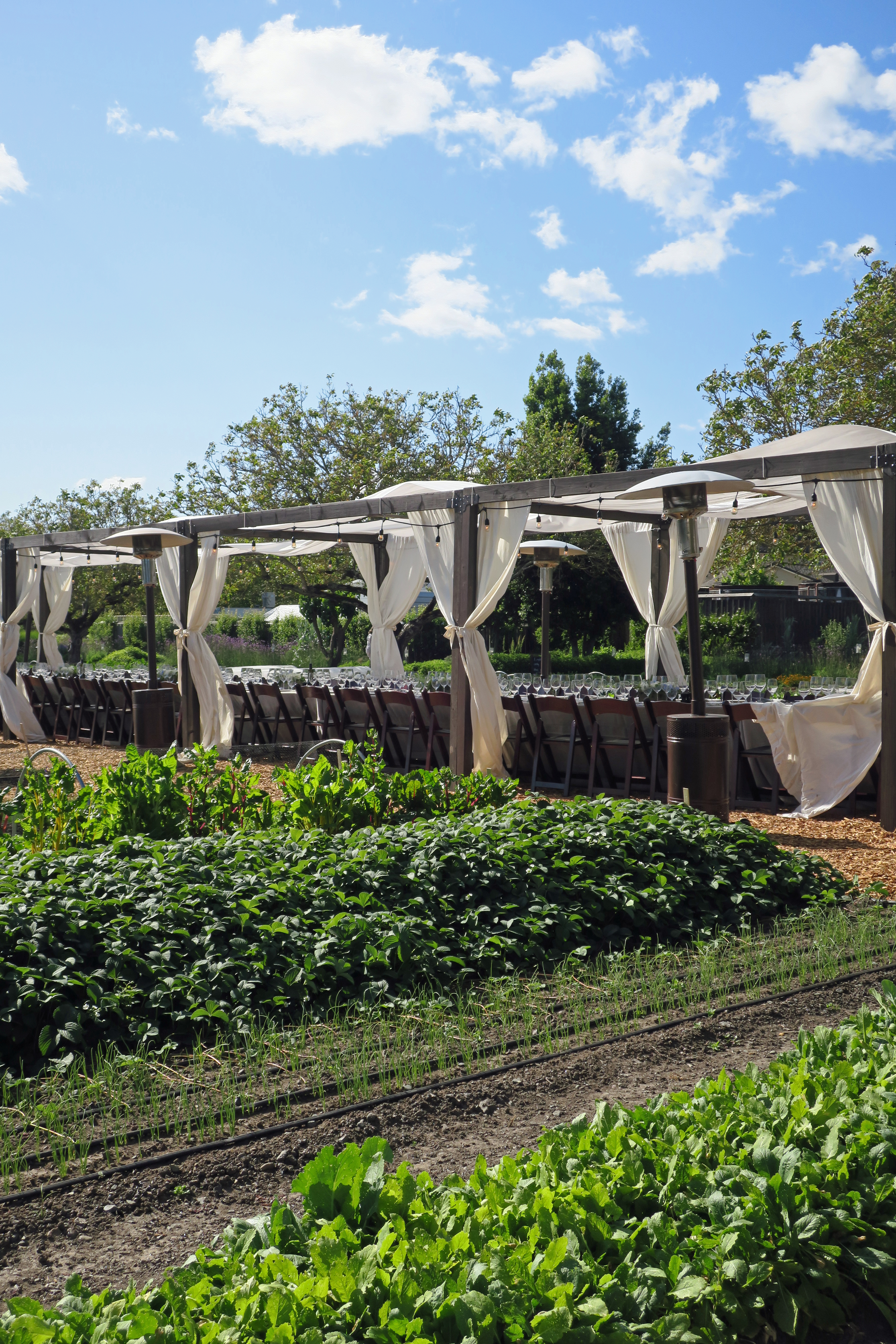 Al fresco dining at the Farm-to-Table Dinner at Kendall-Jackson Wine Estate & Garden